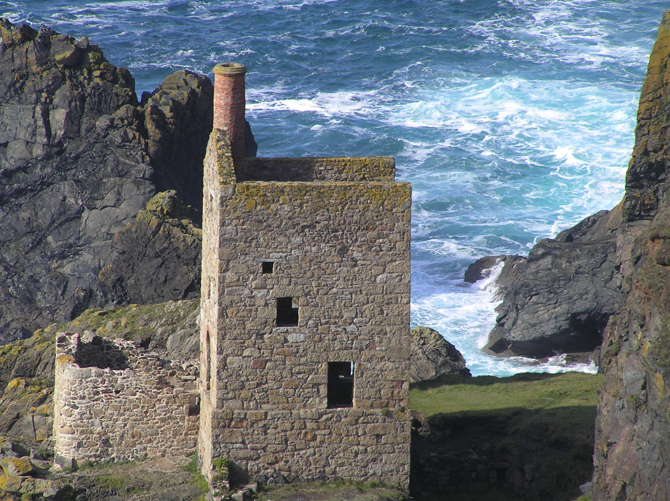 Photo taken by Will Wallis webmaster at Cornwall in Focus